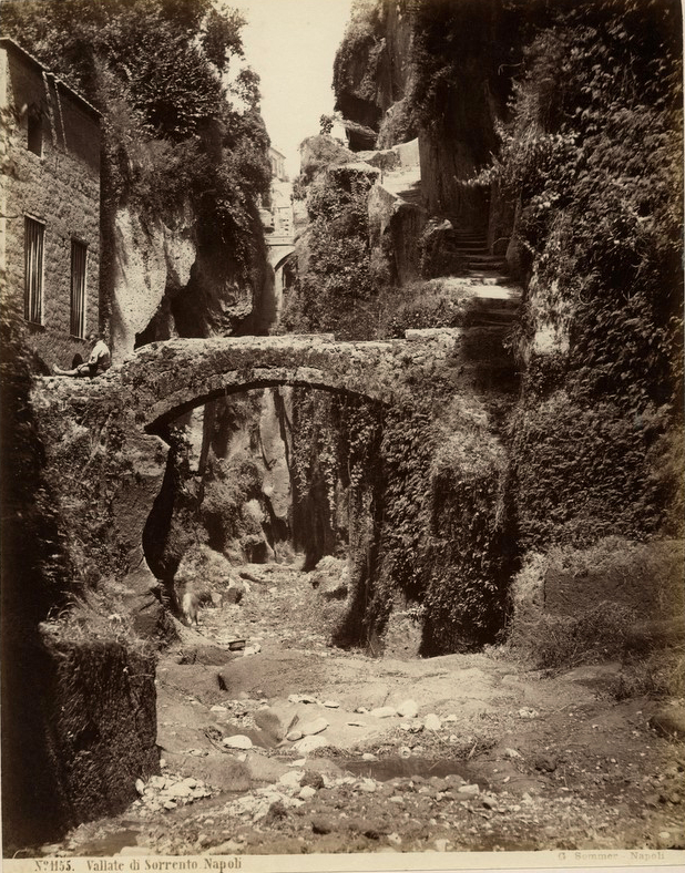 Giorgio Sommer (1834-1914) - Valleys of Sorrento (Naples). Catalogue # 1153.